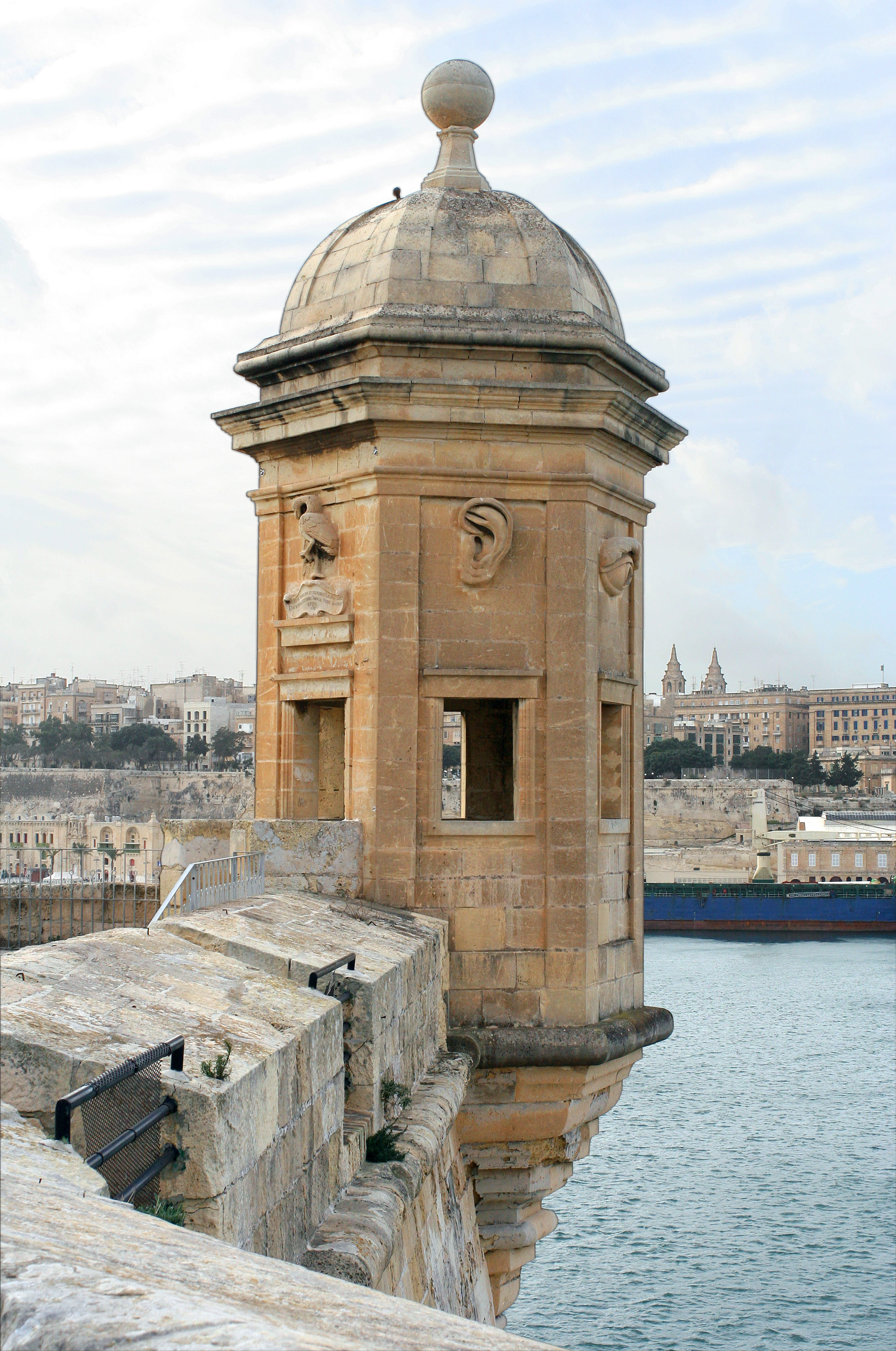 Malta, Senglea, Gardjola watch tower